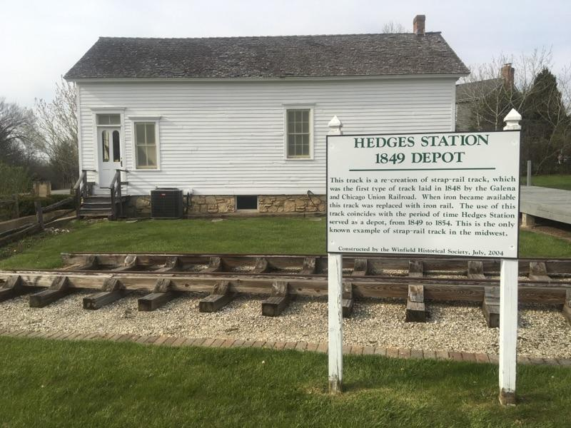 Hedges Station on Winfield Road. The oldest building standing in Winfield.